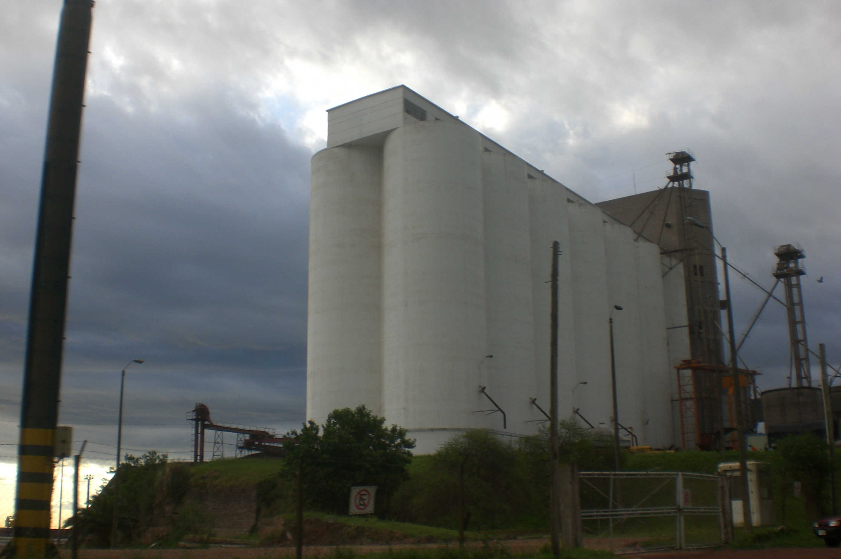 deposit of grain in Nueva Palmira port